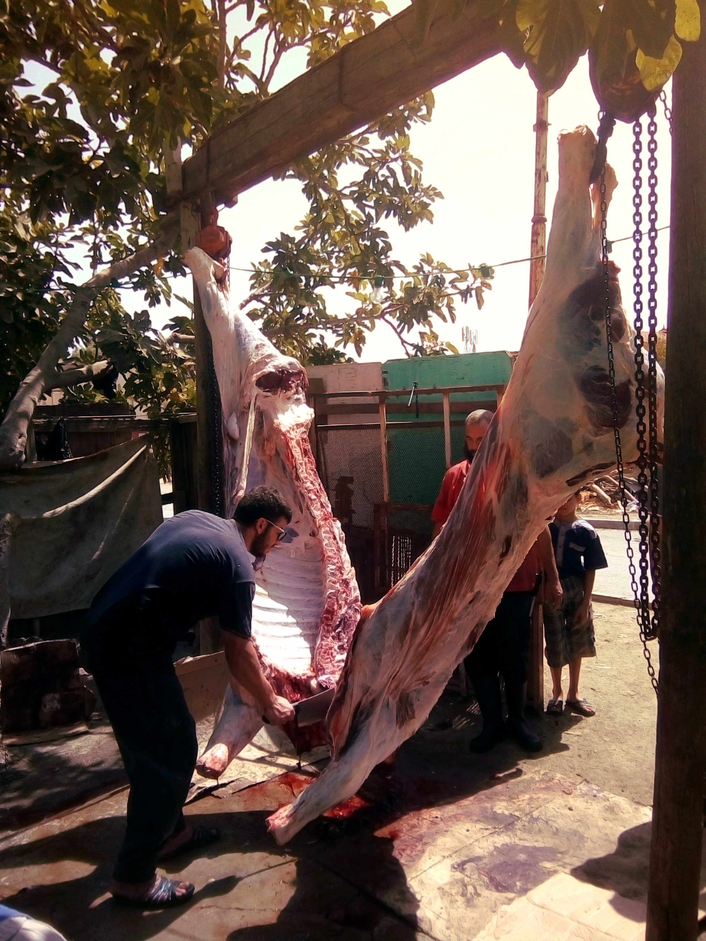 This Picture Shows A young amazigh algerian butcher This is an image of "African people at work" from Algeria